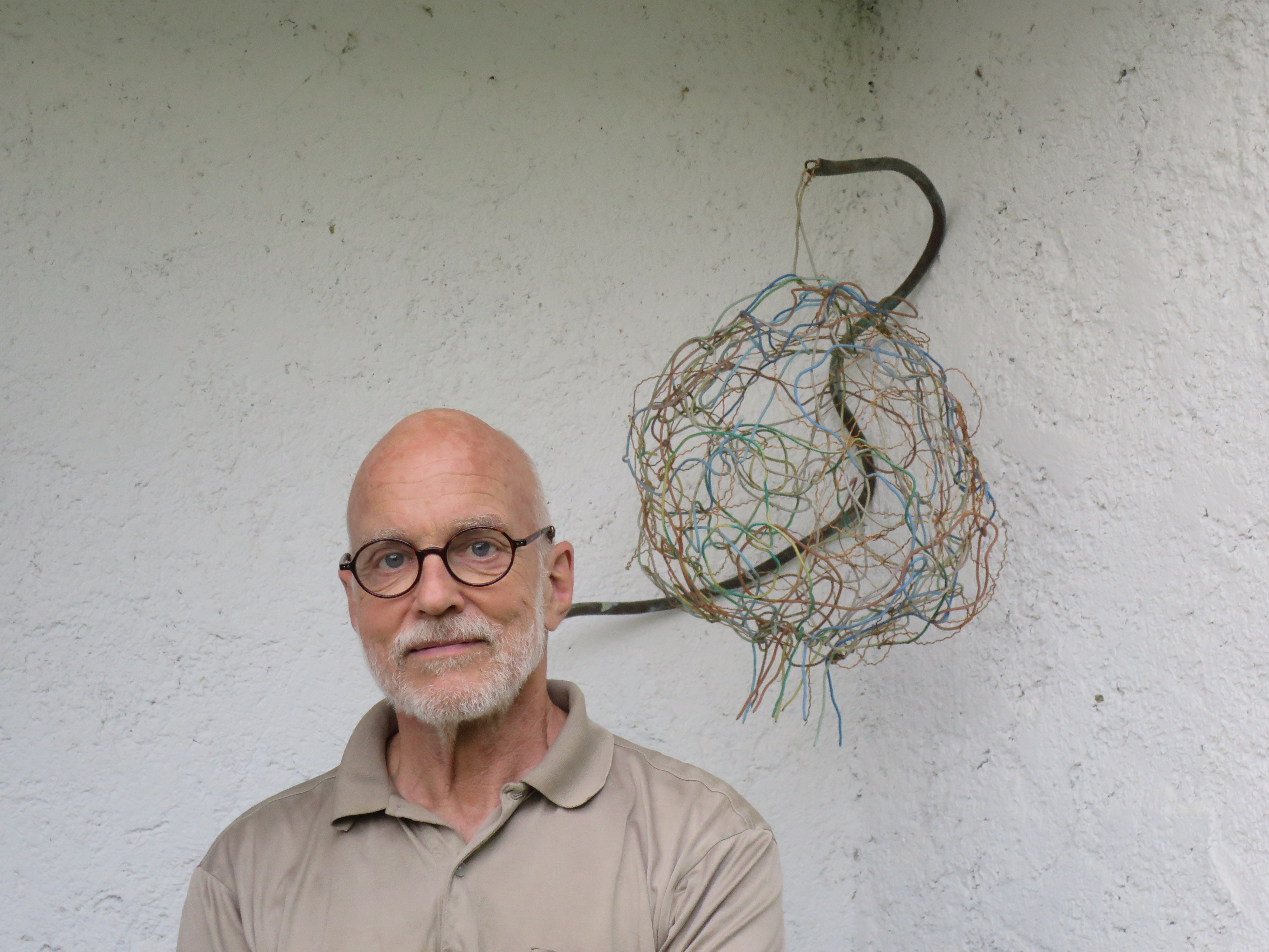 Marcus Campbell